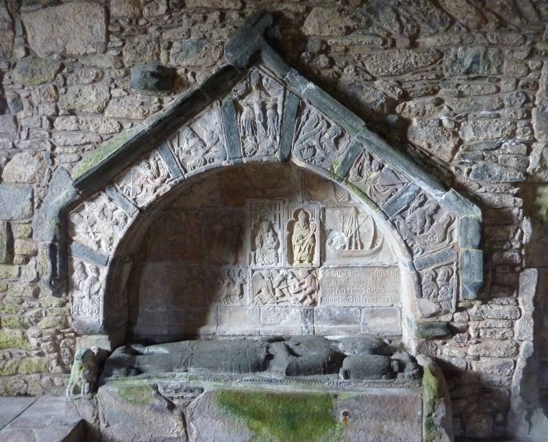 St Clement's Church, Rodel, Lewis and Harris, Scotland